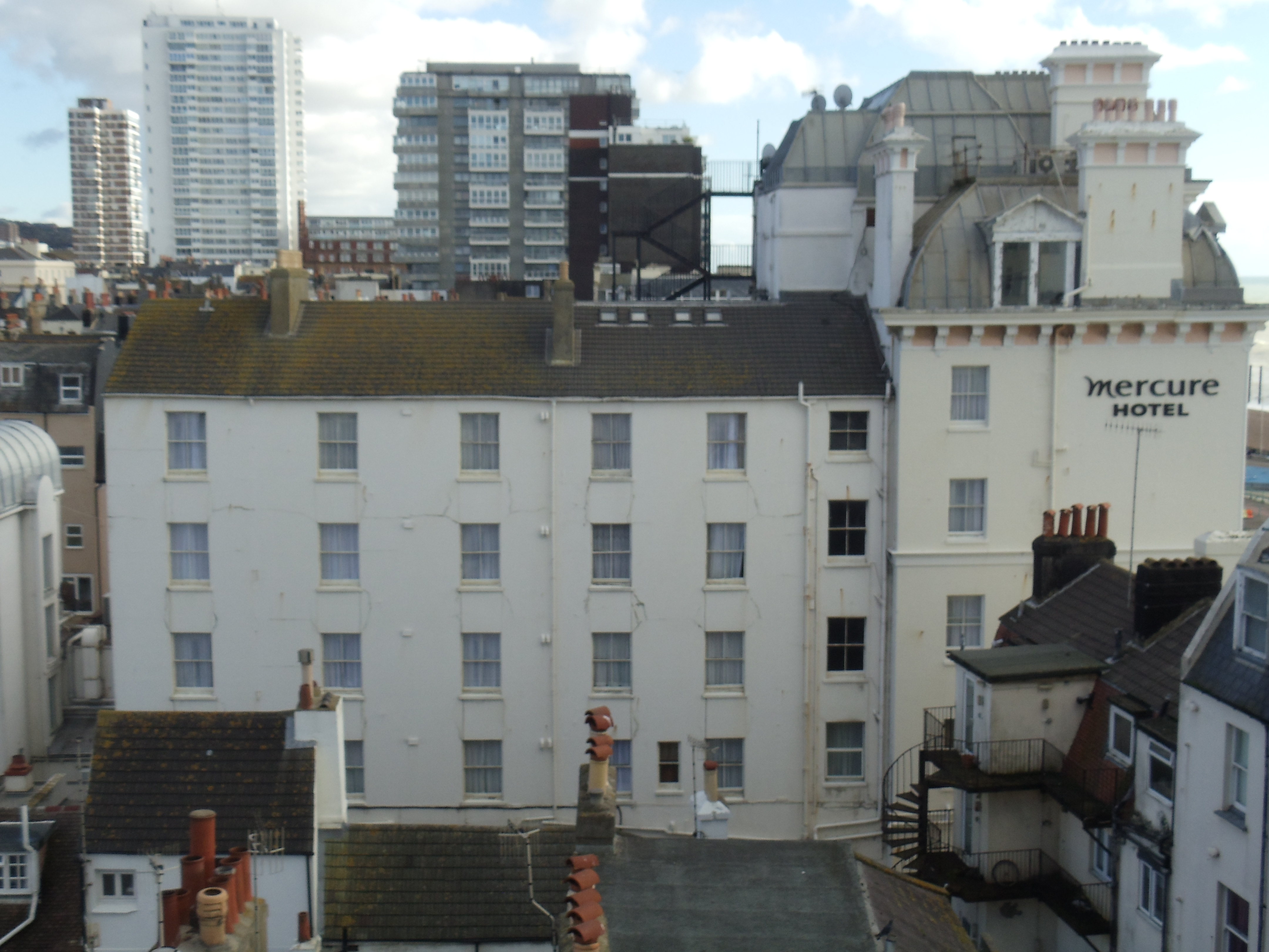 Norfolk Hotel, now called the Mercure Hotel, on the Brighton seafront. Picture taken from a window in Embassy Court.